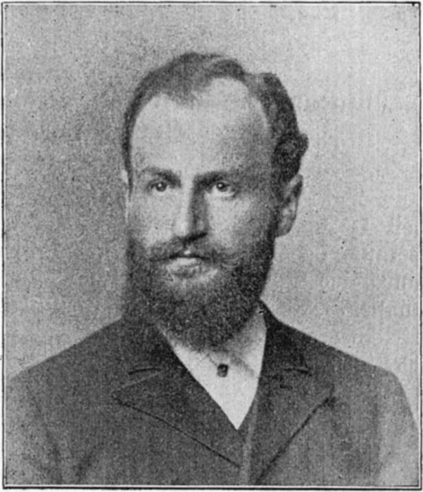 Ignaz Jastrow 1895